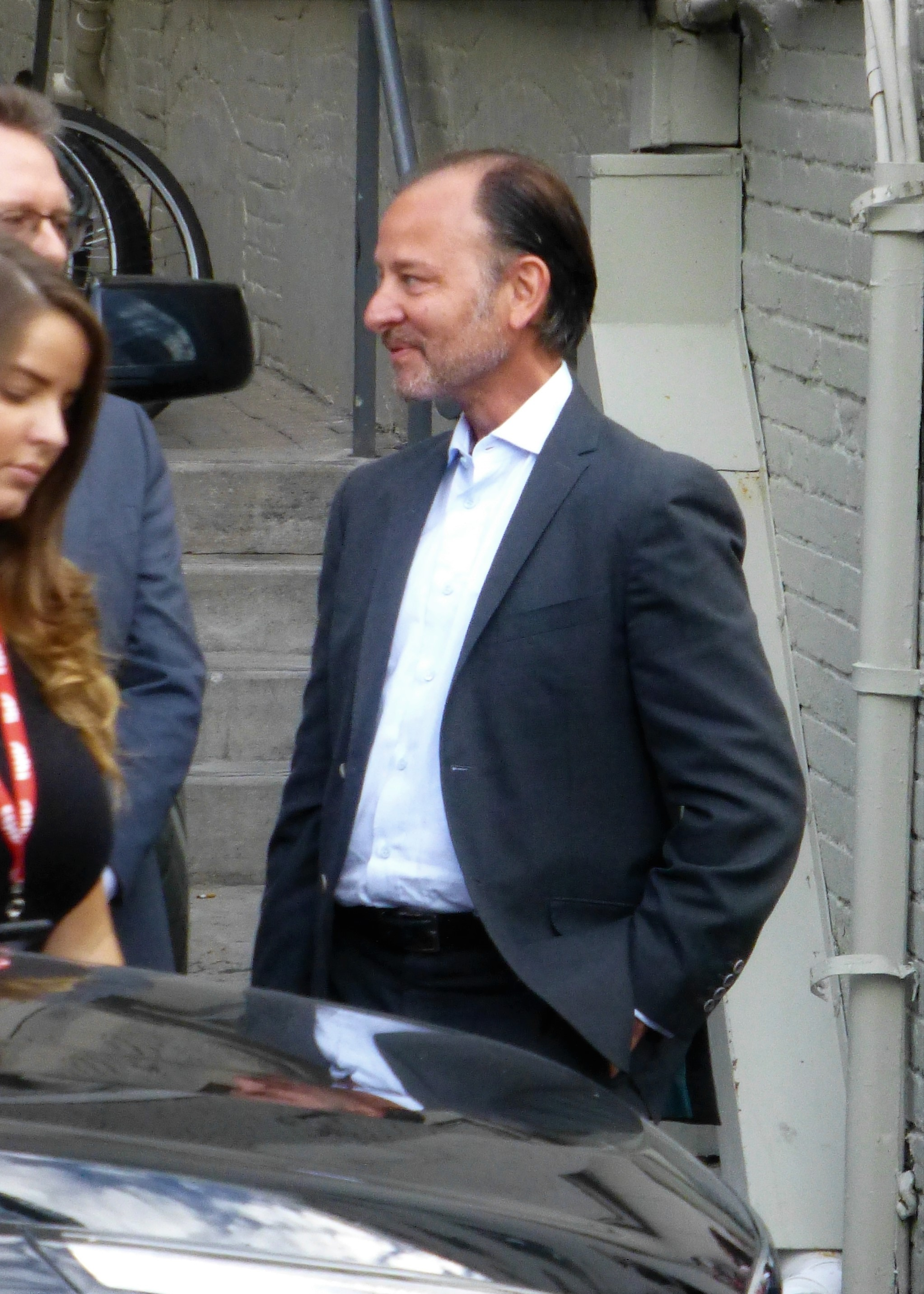 Fisher Stevens at the premiere of Before the Flood, 2016 Toronto Film Festival